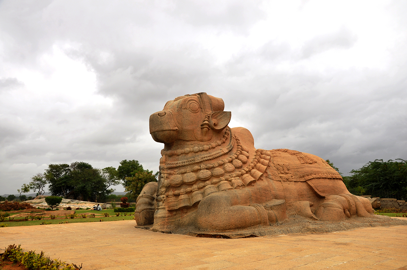 Free Siting open air single stone carved Nandi, 2nd biggest nandi in India. The nandi faces the naga Lingam, The naga linga sculpture is inside the Veerahbadreswara temple at Lepakshi in Andhra Pradesh, Hindupur was supposed to have been carved out by a man in an hour. This is about 15 feet in hight very massive shiva linga sculpture with naga Prabhavali.